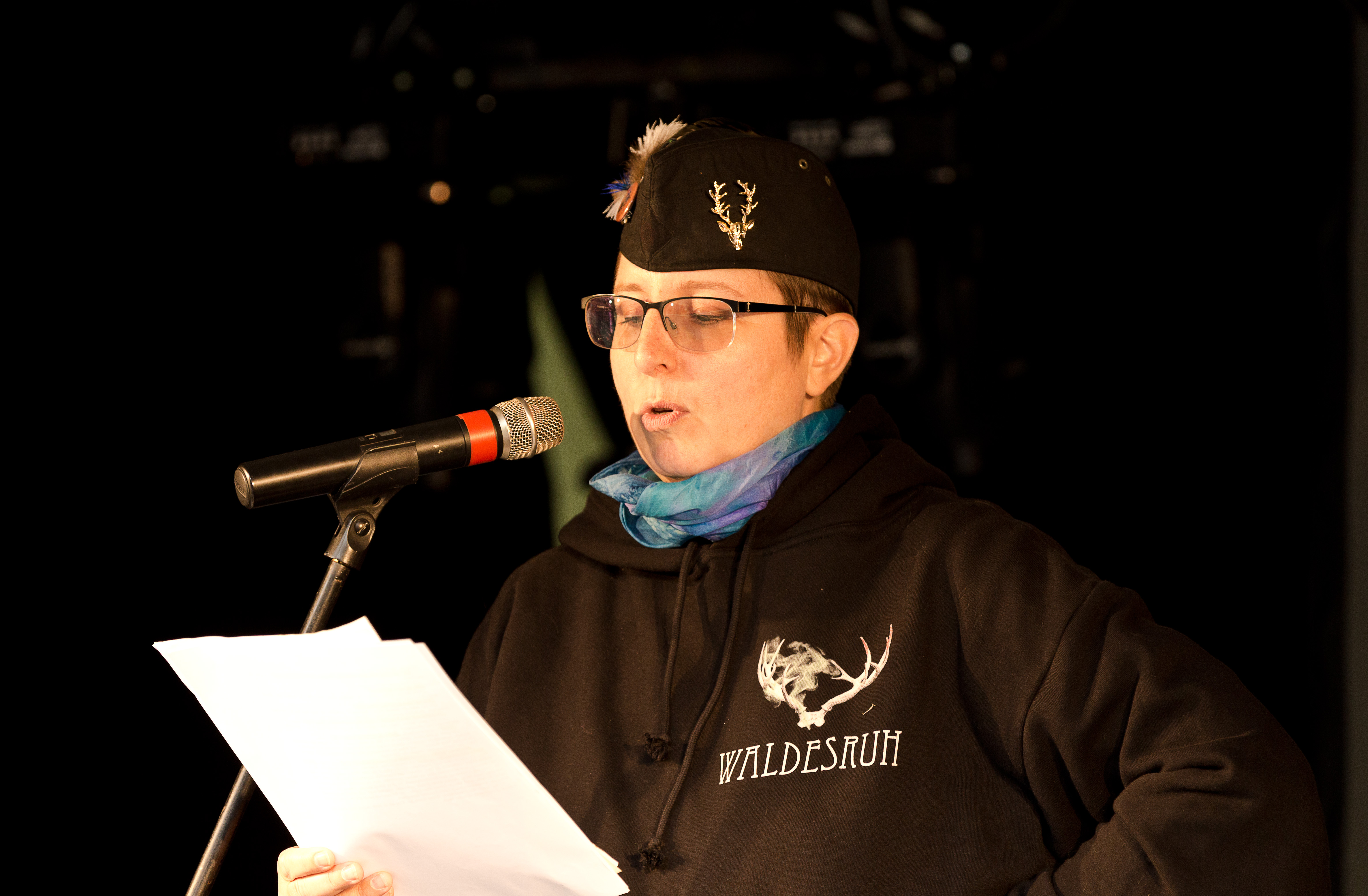 The German author Anja Bagus at the Nocturnal Culture Night 10 2015 in Deutzen/Germany.